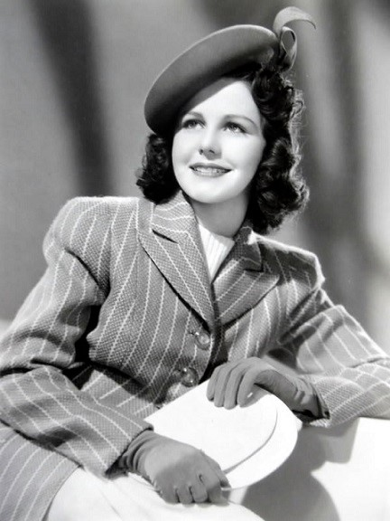 Helen Parrish, publicity still from "Three Smart Girls Grow Up"